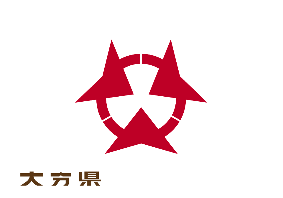 Flag of Oita (variant)